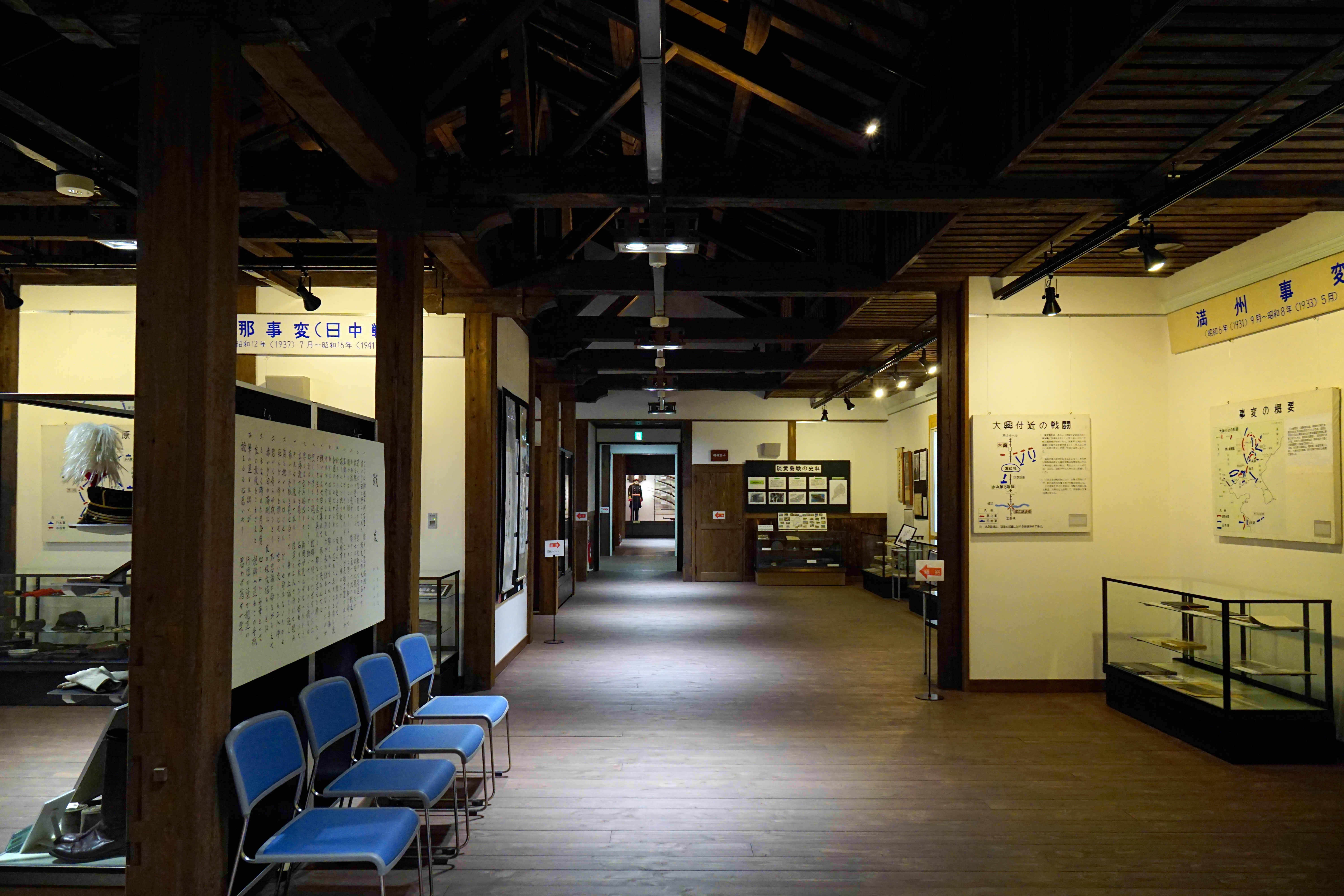 White wall barracks archives museum of public relations in Shibata, Niigata prefecture, Japan.